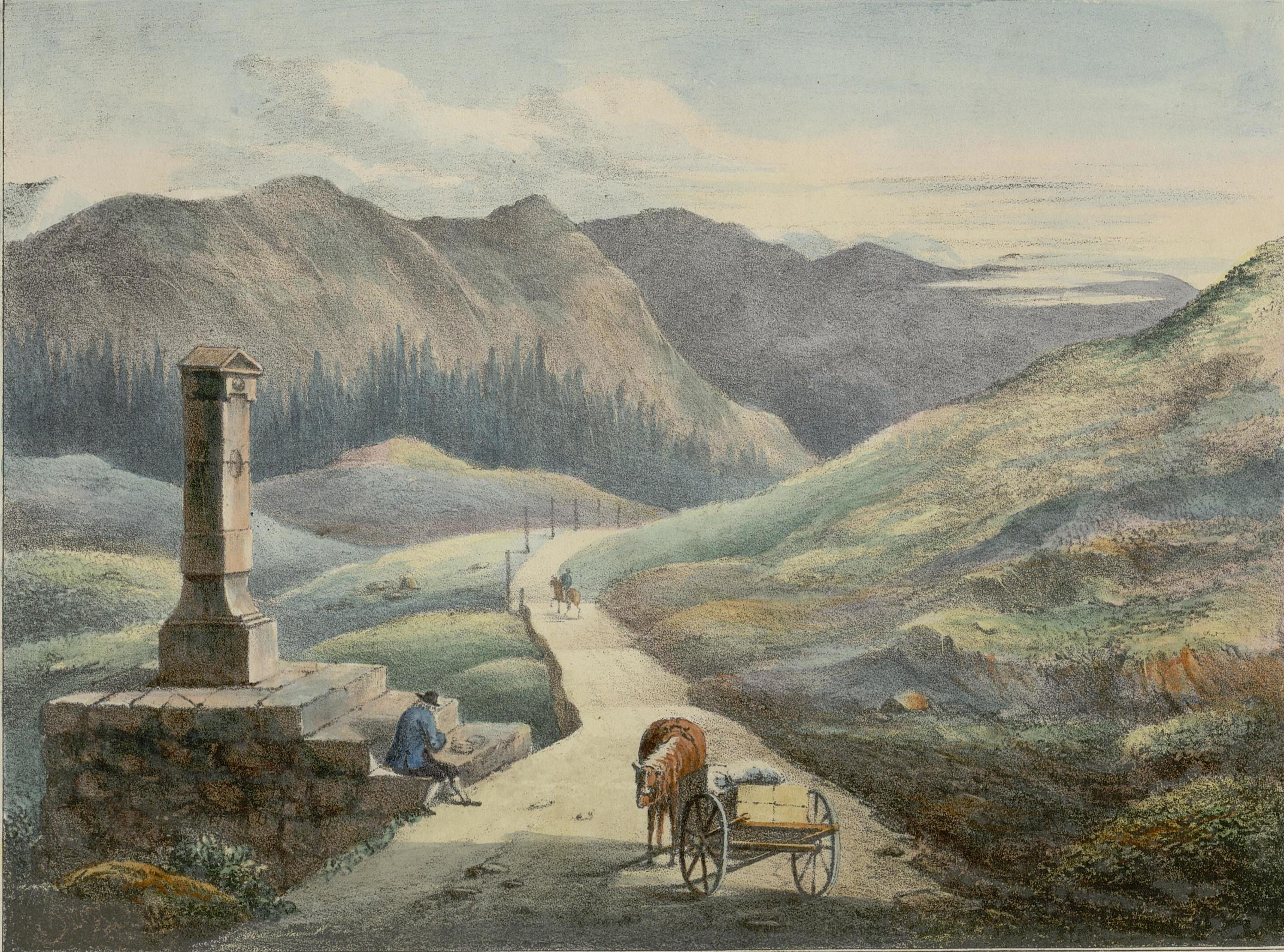 Illustration from the book "Norsk Prospect-Samling" by Wergmann, P.F. and published by P.F. Wergmann (no, 1833-1836)